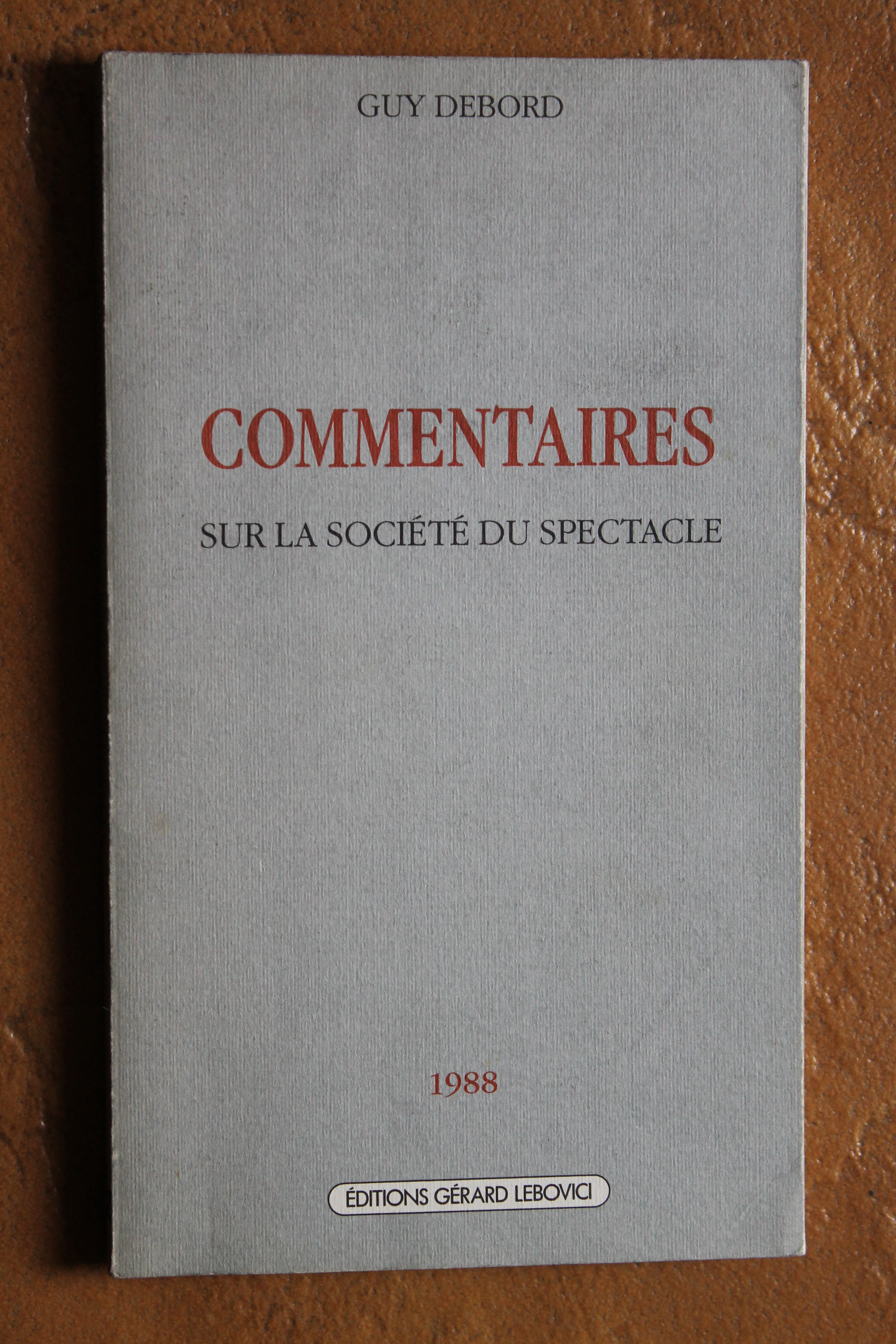 Commentaires sur la société du spectacle by Guy Debord (Éditions Gérard Lebovici, 1988).